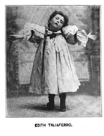 Edith Taliaferro as a child actress